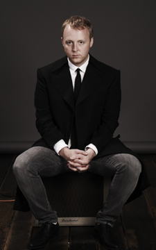 Photo of James McCartney taken in publicity shoot